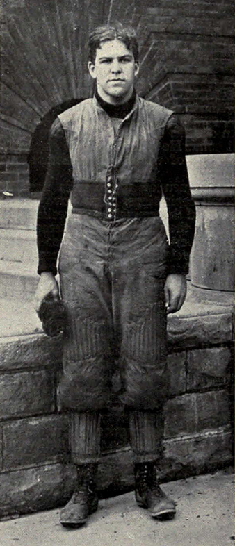 Photograph of James E. Lawrence